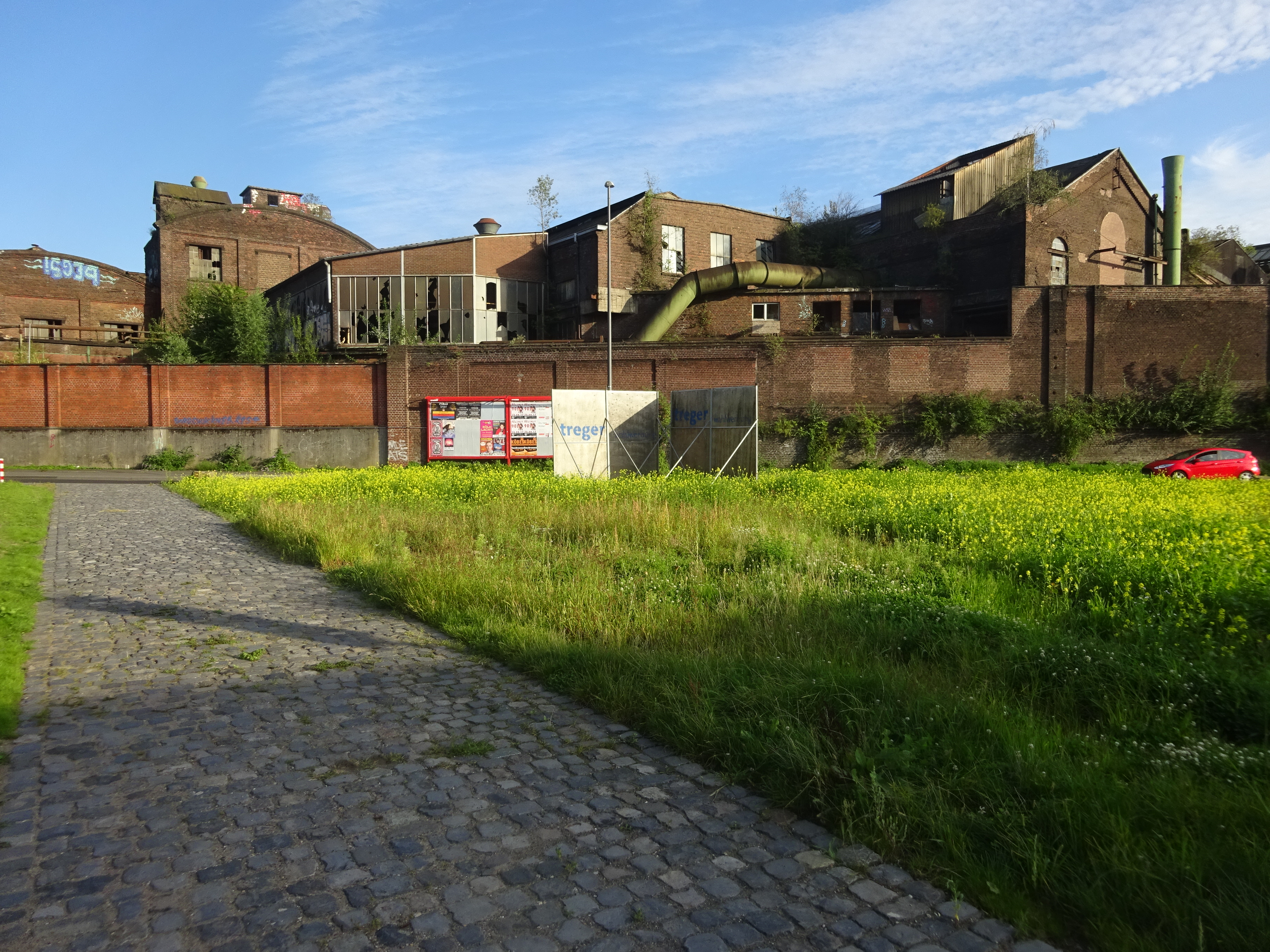 Gasmotorenfabrik Deutz, former casting department